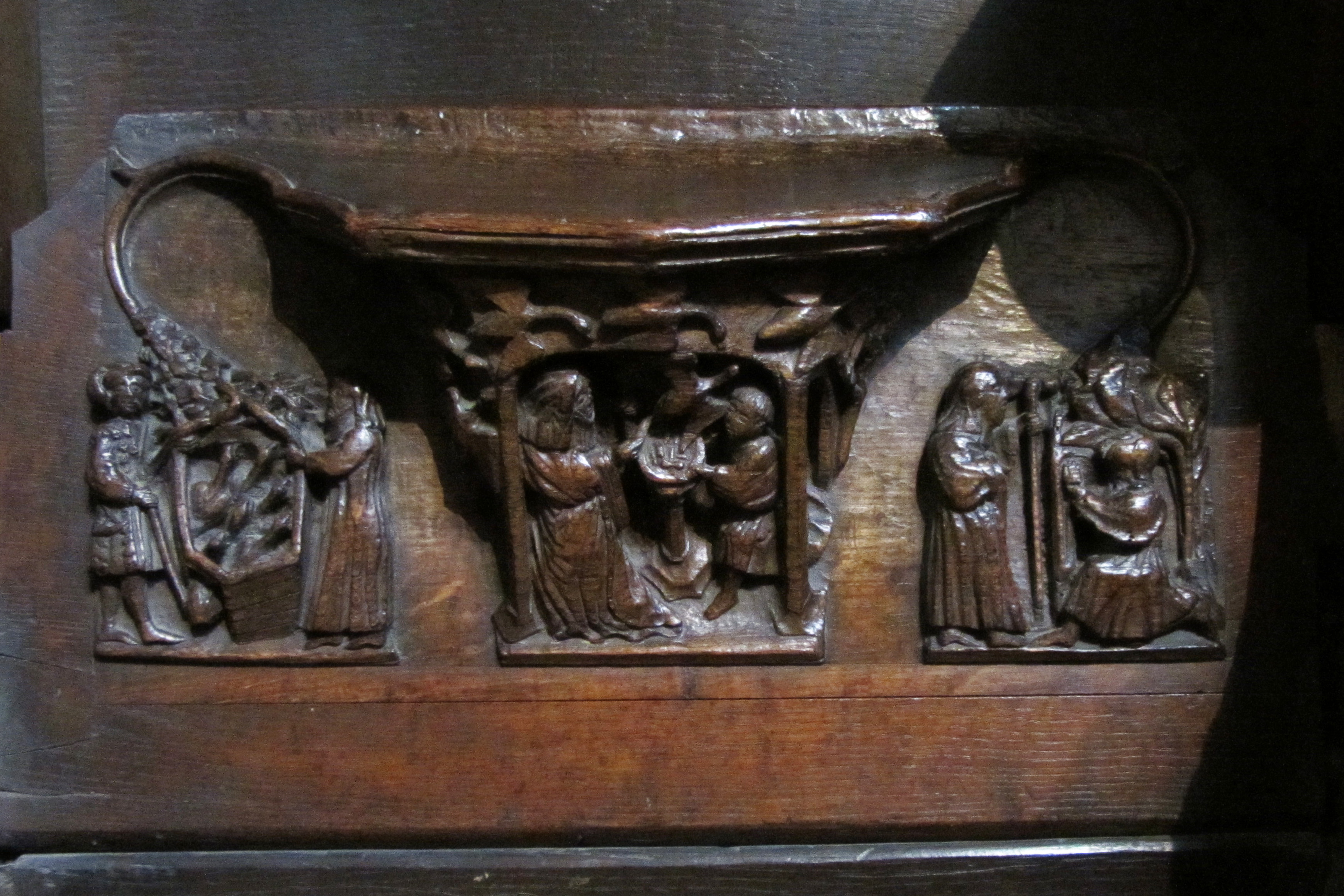 Chester Cathedral choir stalls, 1380, detail of a misericord depicting three stories of Saint Werburgh: in the first she ensnares a flock of geese that had been bothering the neighbourhood by eating the crops. In the second she resurrects a goose that had been eaten from the remaining bones. In the third she performs an act of healing or conversion.